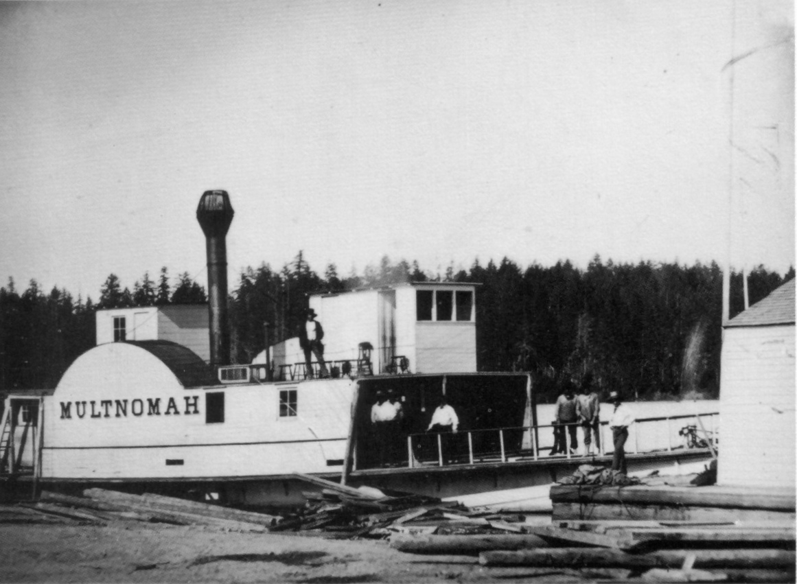 Multnomah sidewheeler built 1851, served on the Willamette River, dismantled at Portland 1864. This is at the foot of Washington Street, in Portland, Oregon, in 1853. (Date and location from Lewis and Dryden).